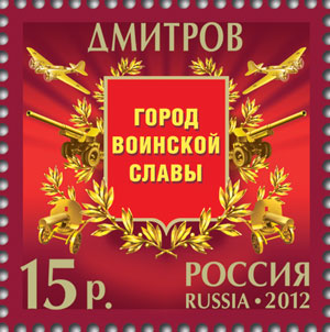 Cities of Military Glory 6